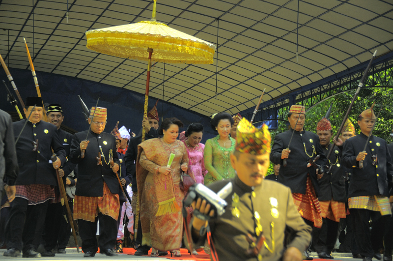 Royal guests of Karaton Surakarta Hadiningrat at 4th ceremony of Pisowanan Agung Tingalan Dalem, Solo